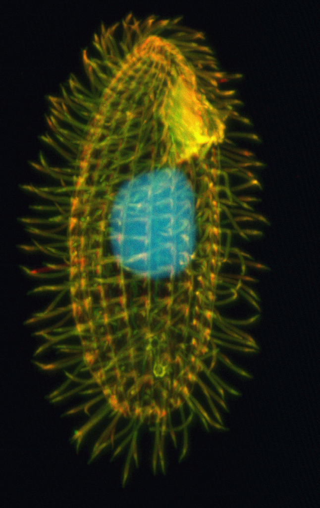 The genome sequence of the single-celled ciliate Tetrahymena thermophila sheds light on early eukaryotic evolution.